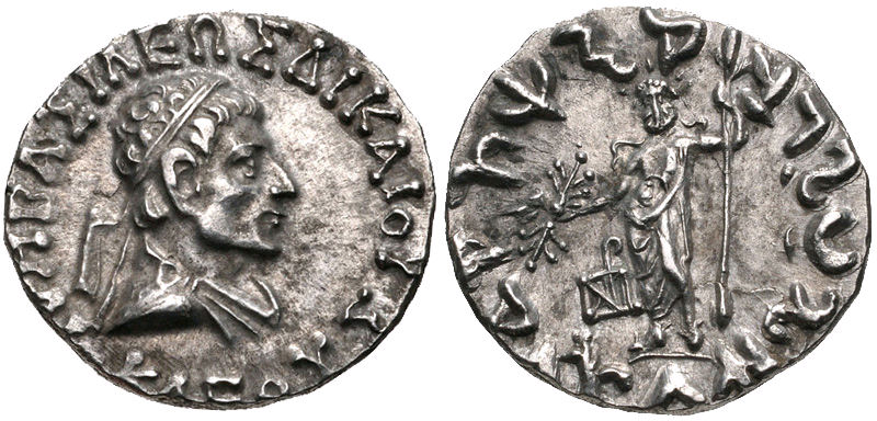 Heliokles II sharp